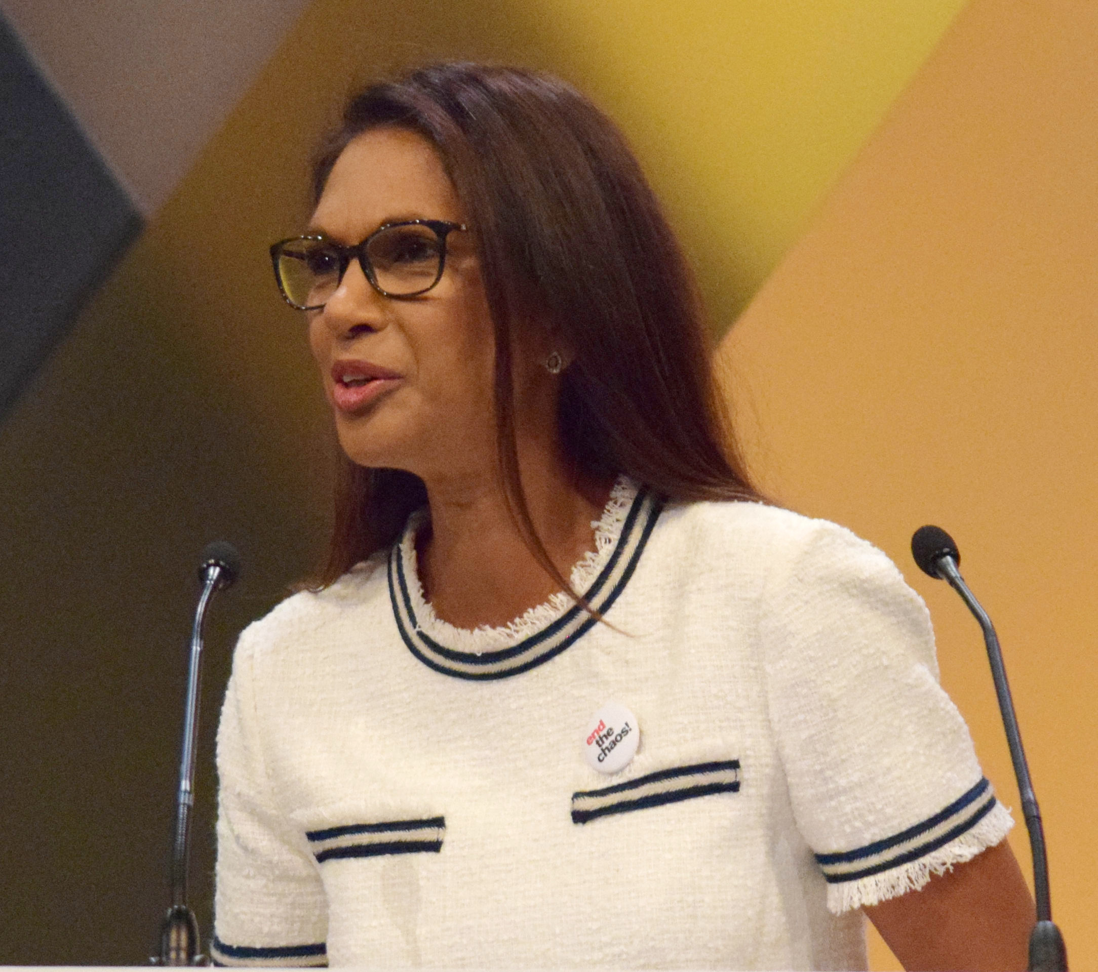 Gina Miller giving a guest speech at the 2018 Liberal Democrat conference in the Brighton Centre. For the avoidance of doubt: Gina Miller stated that she is not a member of the Liberal Democrats, or any other political party.